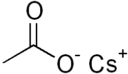 chemical structure of cesium acetate